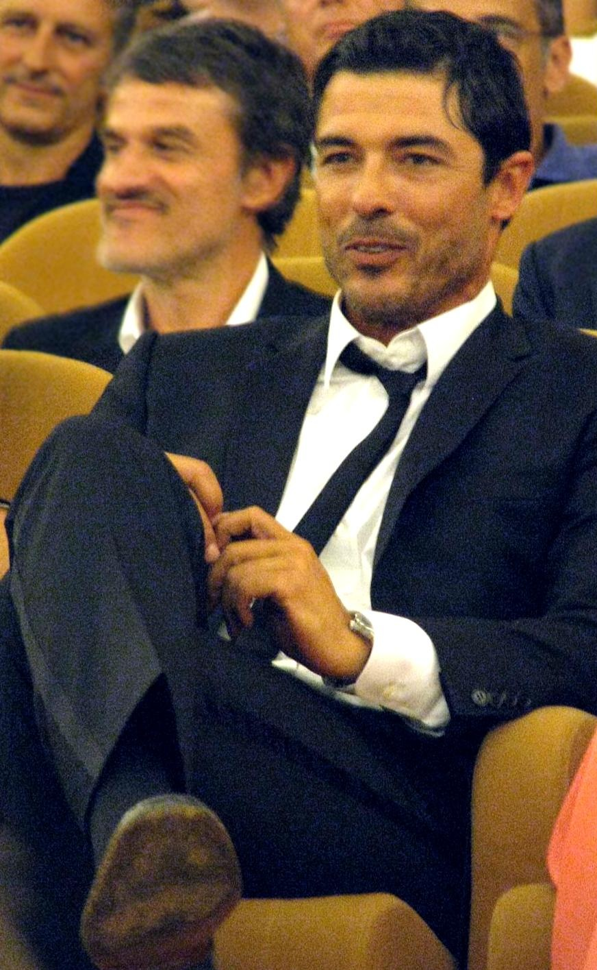 Italian actor Alessandro Gassman at 2008 Venice Film Festival